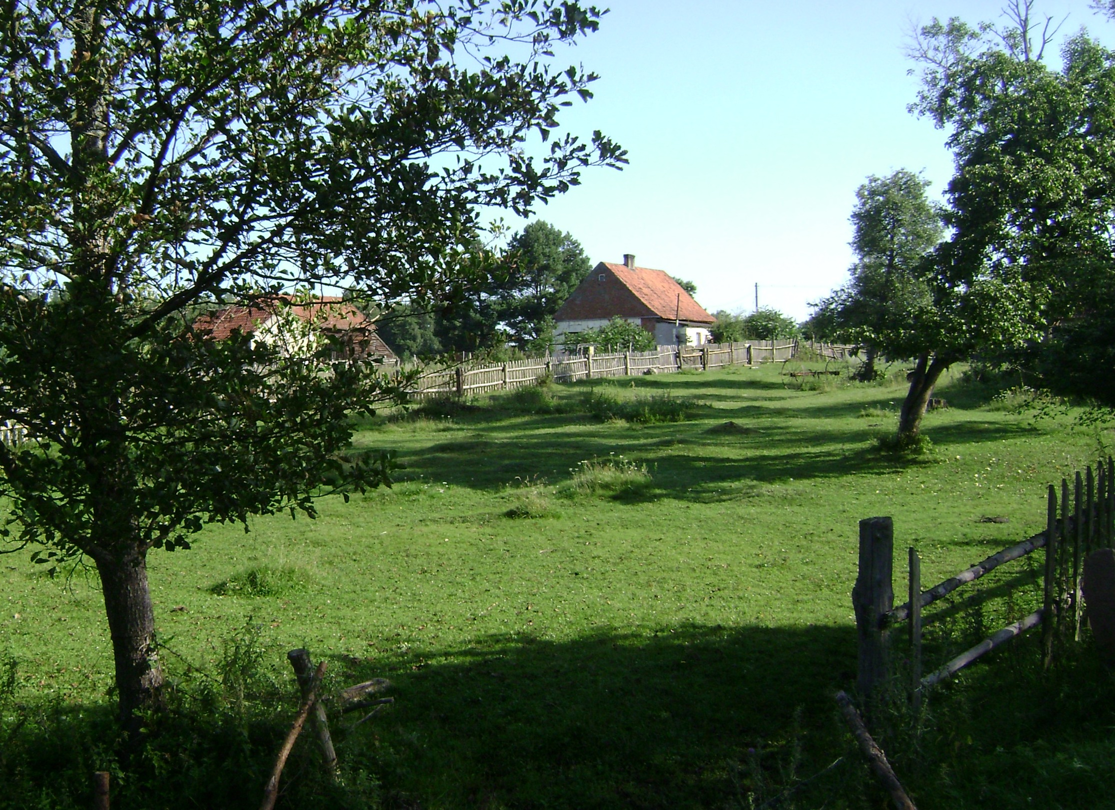 Poland. Gmina Jedwabno. Witówko